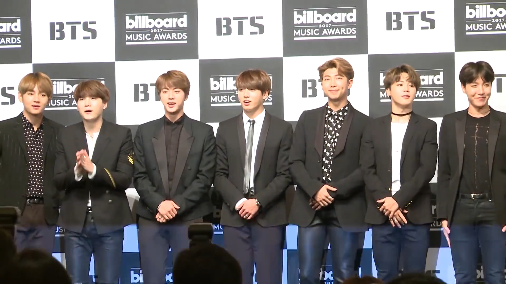 BTS at a press conference for the Billboard Music Awards on May 29, 2017